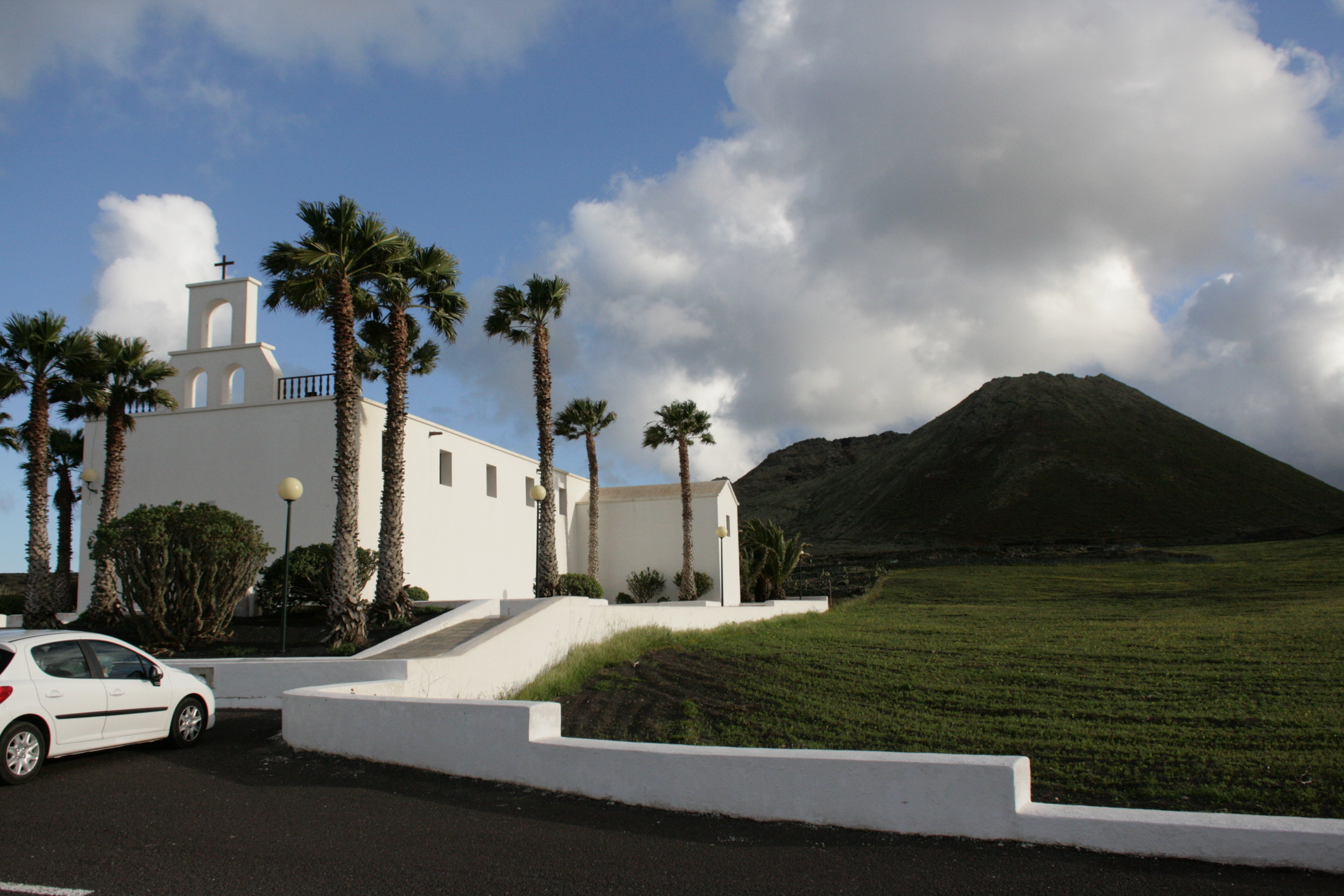 Iglesia de Ye with Monte Corona in background, Calle San Francisco Javier (LZ-201) in Ye, Haría, Lanzarote, Canary Islands